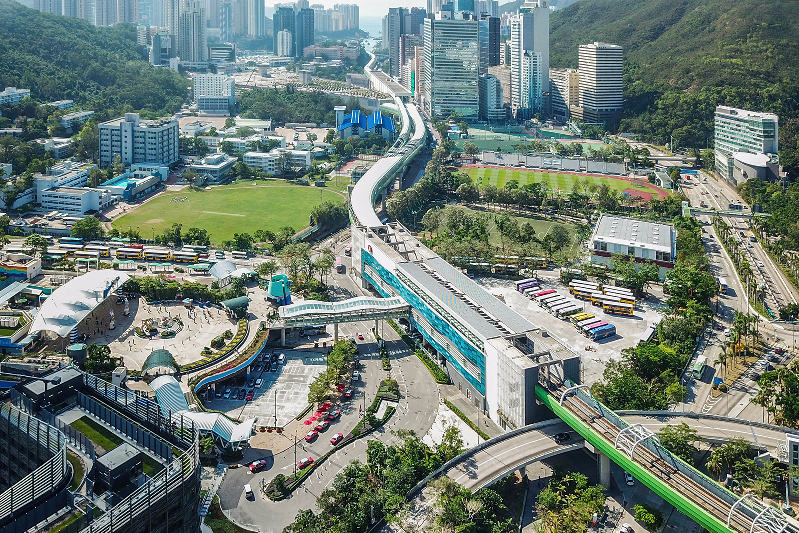 Ocean Park Station Outside view